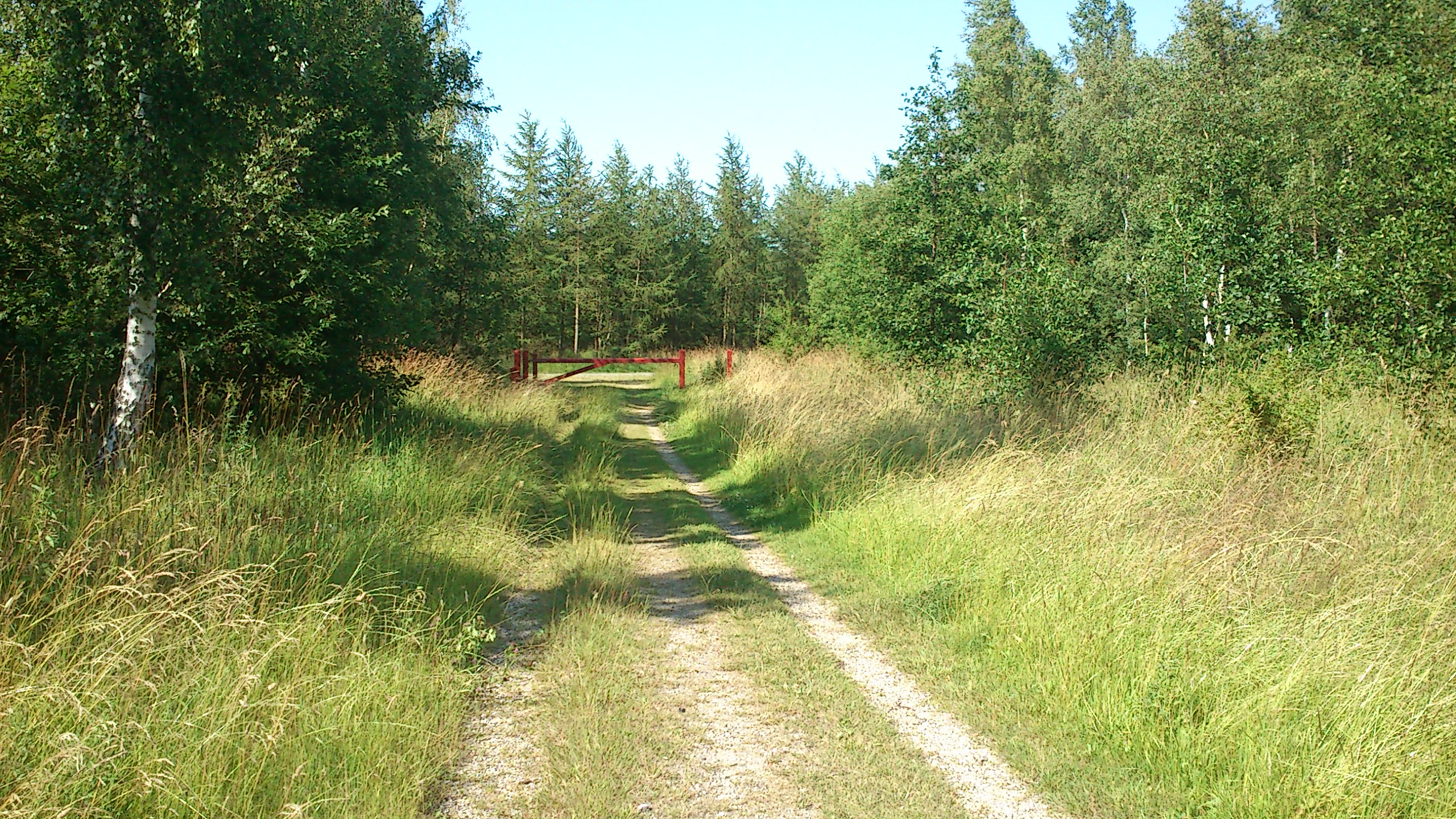 Bærmoseskov.